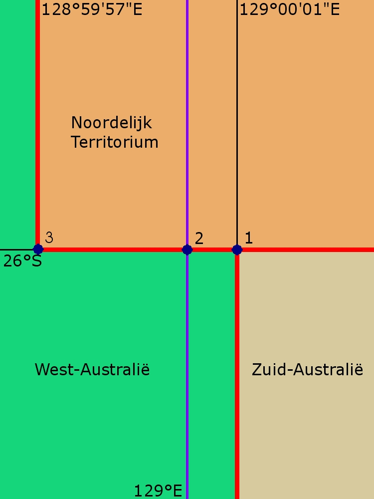 Subject: borders of Western Australia, South Australia and the Northern Territory in the vicinity of Surveyor General's Corner. Language: Dutch